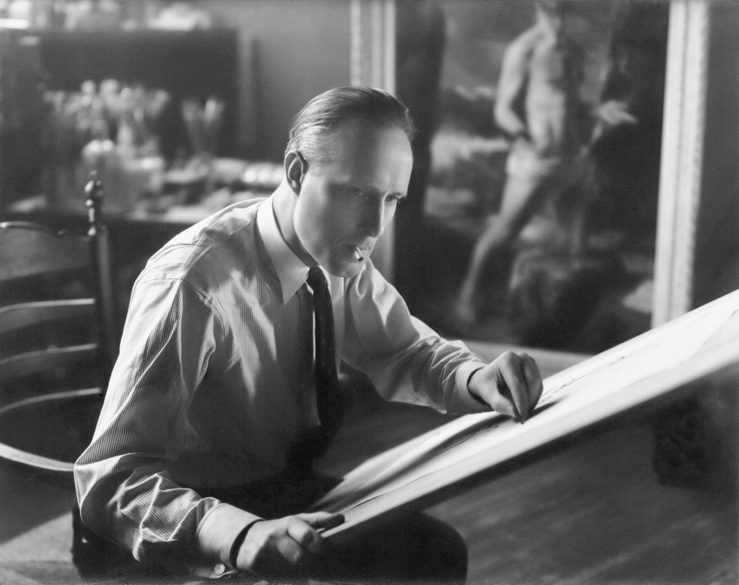 A. Carel Willink (1900-1983) Schilder. 1947